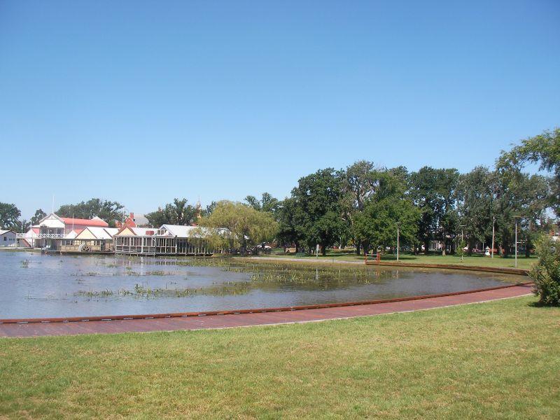 Lake Wendouree, Victoria from the lake